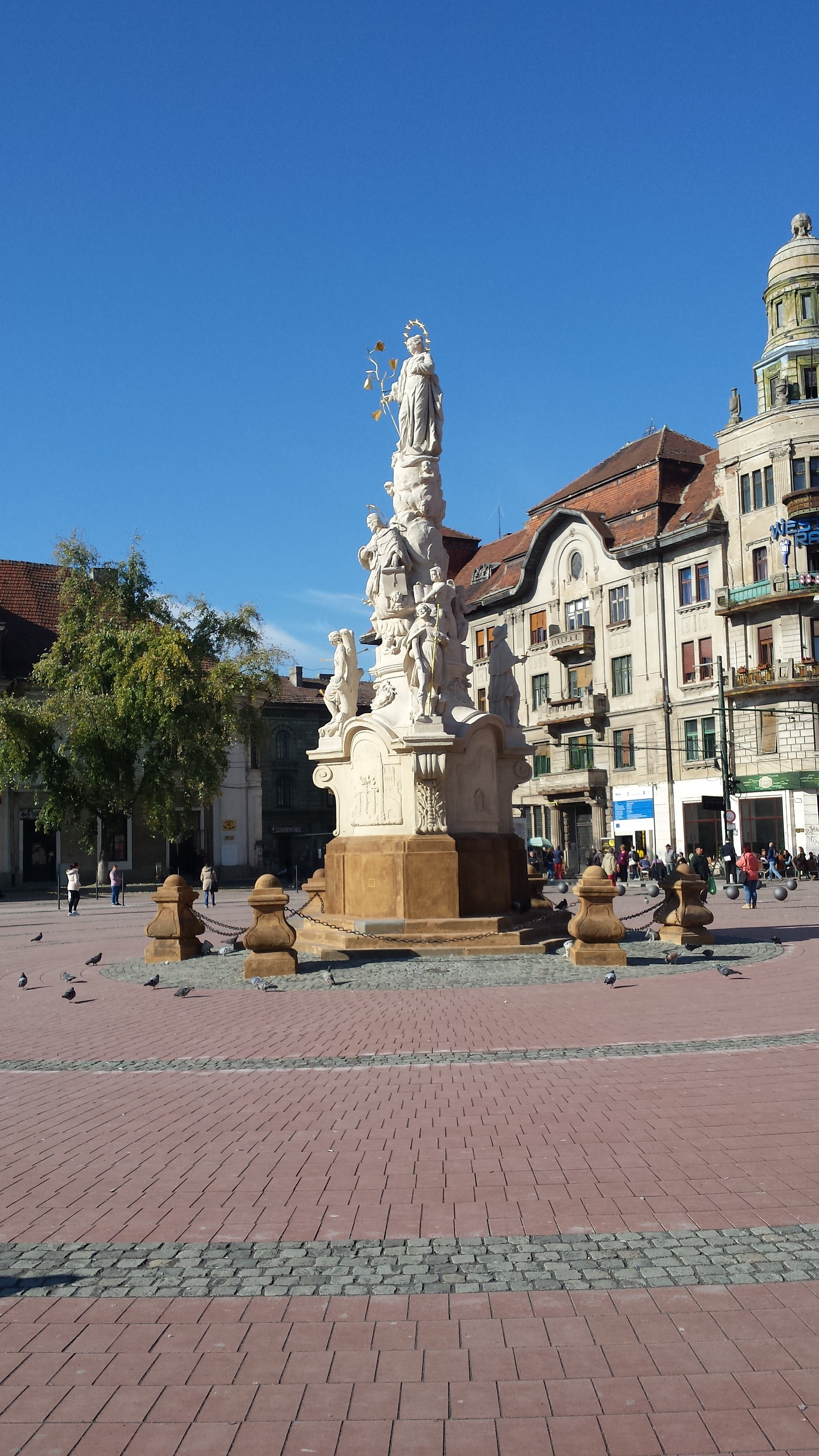 The Statue of St. Maria and of St. Nepomuk in Liberty Square, Timișoara after being restored in 2015.